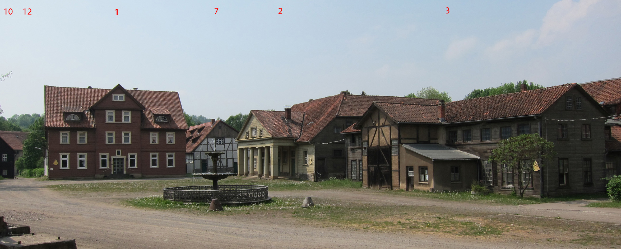 Koenigshuette at Bad Lauterberg, disused ironworks